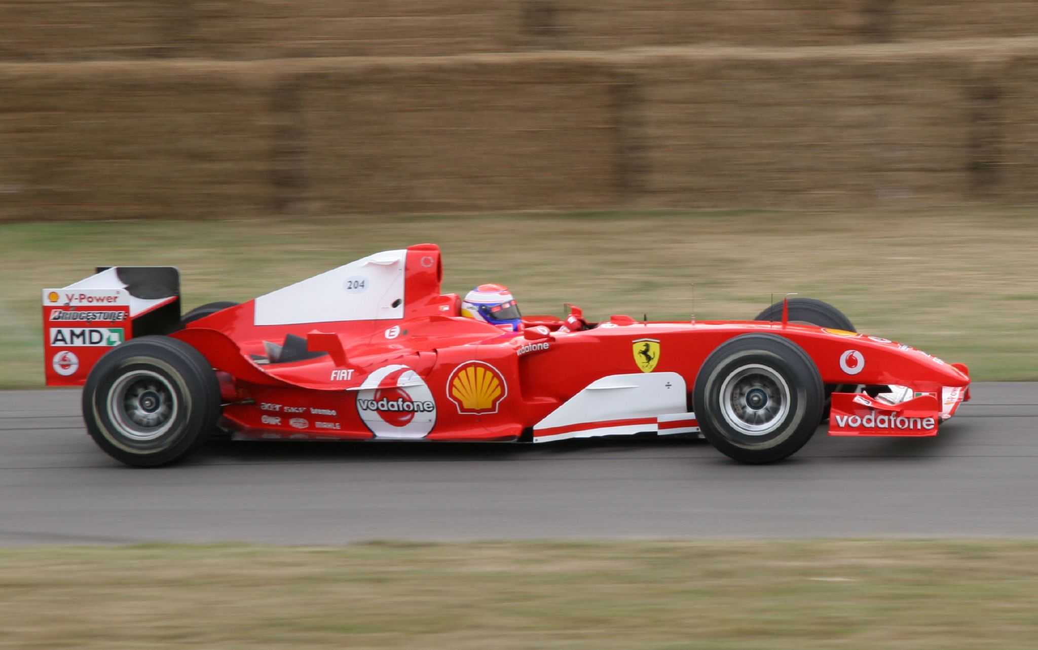 Ferrari F2004 during 2006 Goodwood Festival of Speed.